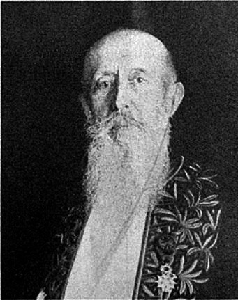 A portrait in black and white of the french architect Paul Séjouné (1851-1939)